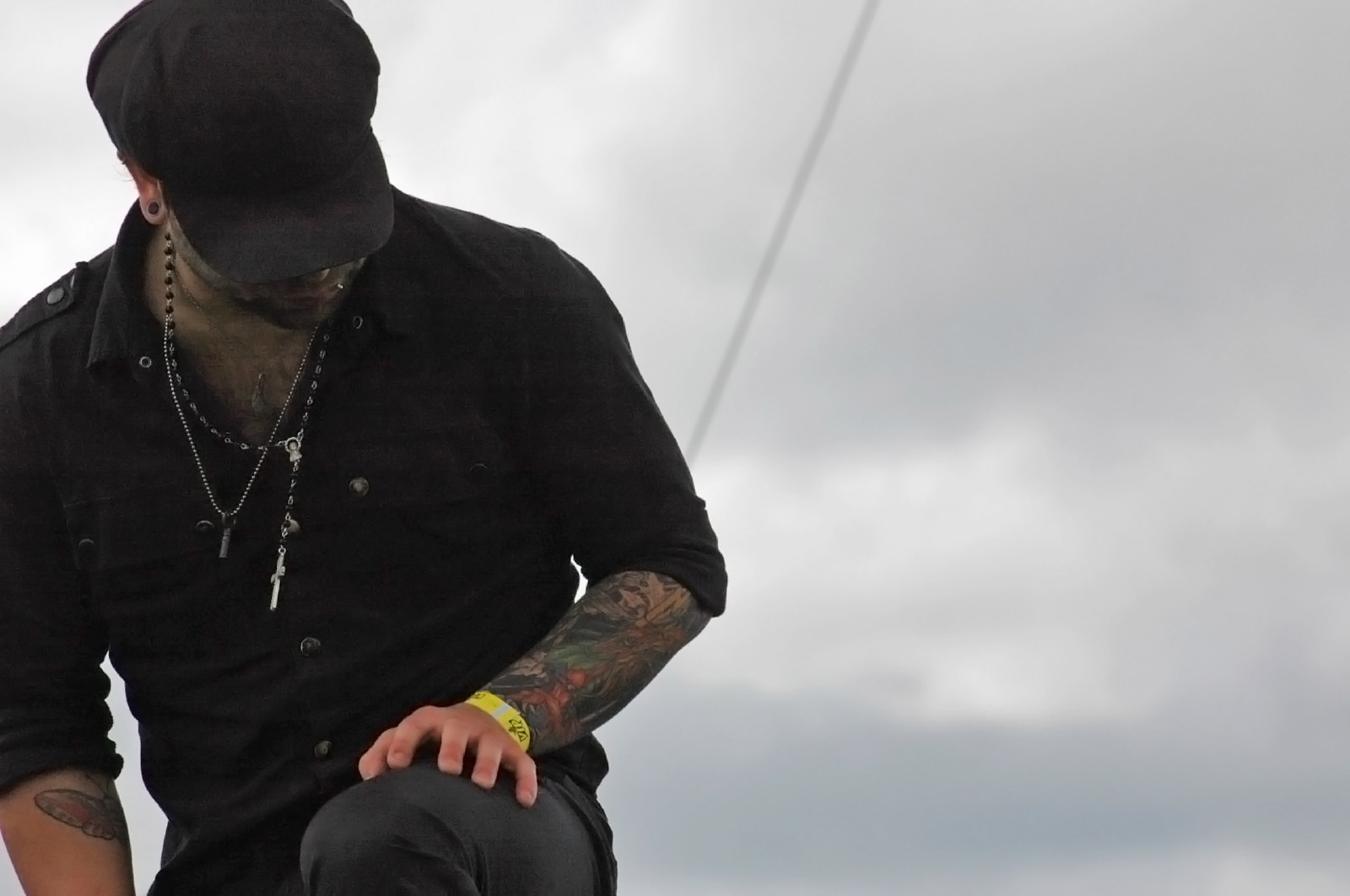 David Pelsue, the lead singer from Kids in the Way at The Big Ticket Festival.